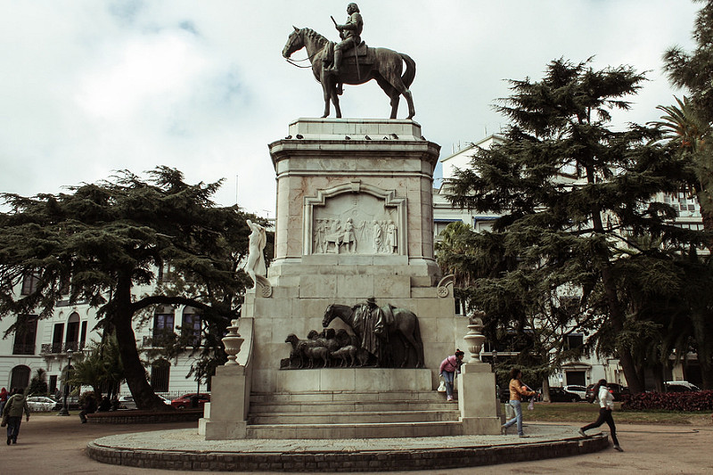 Monument to Zabala, founder of Montevideo.